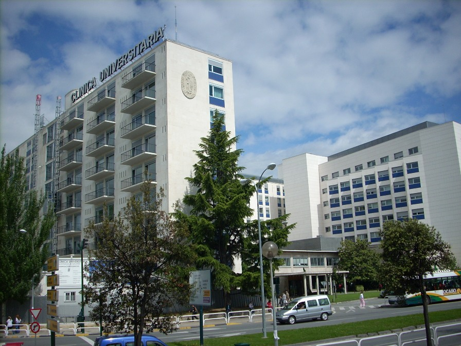 The "Clinica Universitaria" of Pamplona, a part - with its medical school (1954) - of the University of Navarra, is one of the most renowned teaching hospitals in Spain. The "Clinica" had, among its founders in 1961, Eduardo Ortiz de Landazuri and Juan Jimenez Vargas.